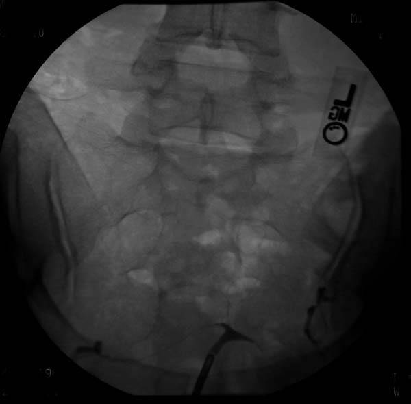 T shaped uterus (uterine malformation caused by DES exposure)